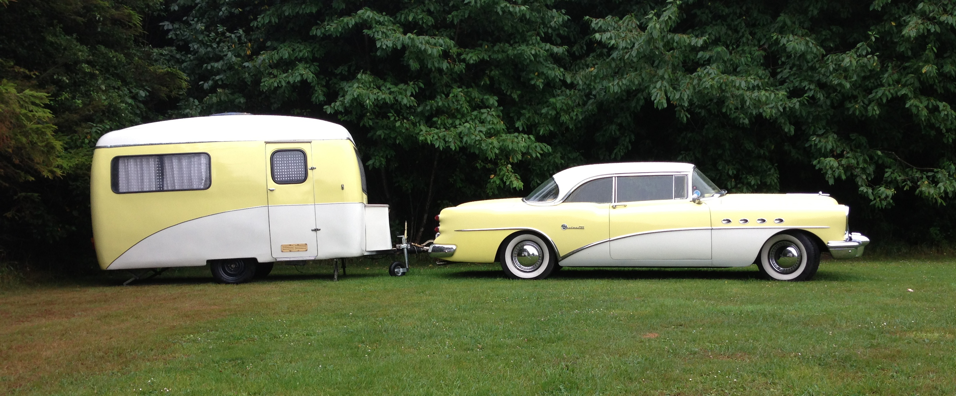 Buick Roadmaster Riviera with travel trailer at Vestbirk Camping, Denmark